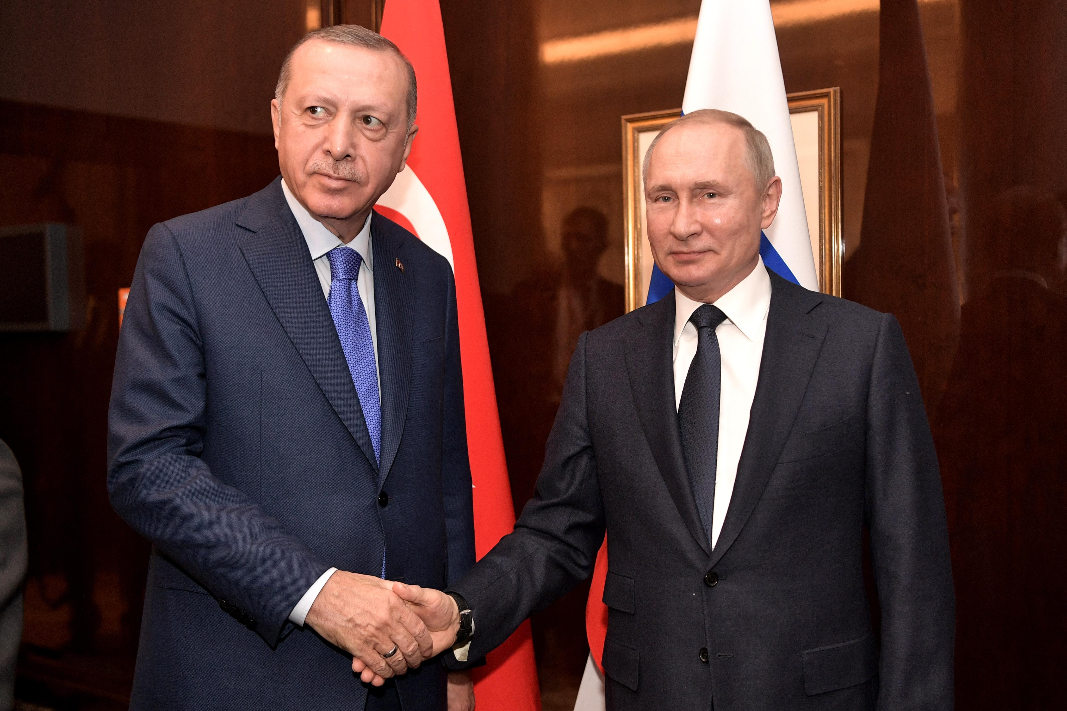 Turkish President Recep Tayyip Erdogan in Germany.